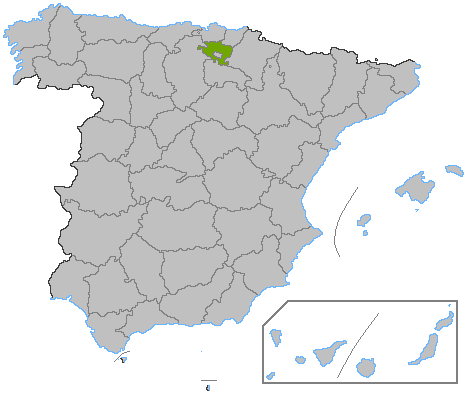 Location of the province of Álava, in Spain. Basado en: ProvPont.jpg Source: Designed by Satesclop. Original picture, designed by Sobreira.